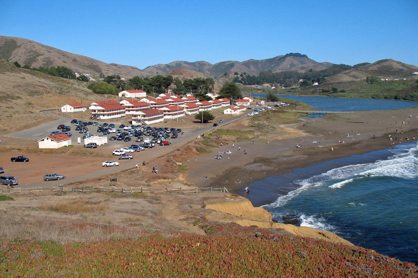 National Register of Historic Places listings in Marin County, California. Fort Cronkhite and Rodeo Beach, Golden Gate National Recreation Area, Sausalito, CA. Photographed September 6, 2009 from hiking trail up to Battery Townsell off of Mitchell Dr.